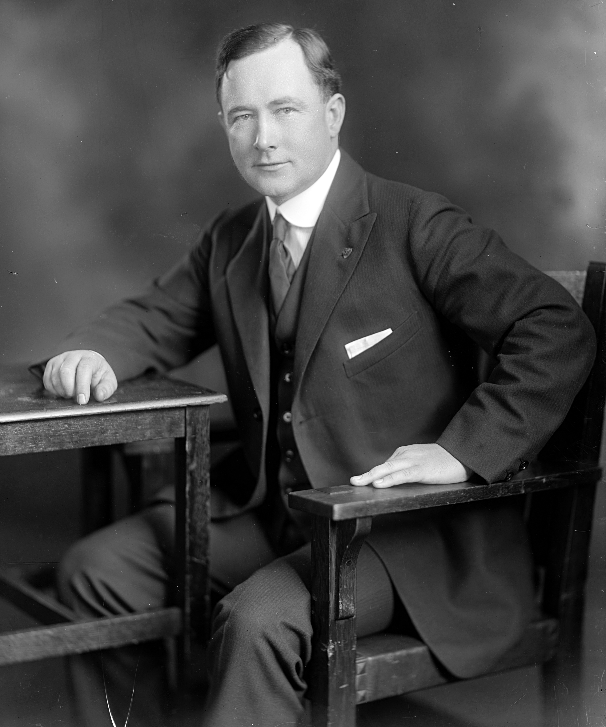 Daniel F. Minahan, US Representative from New Jersey